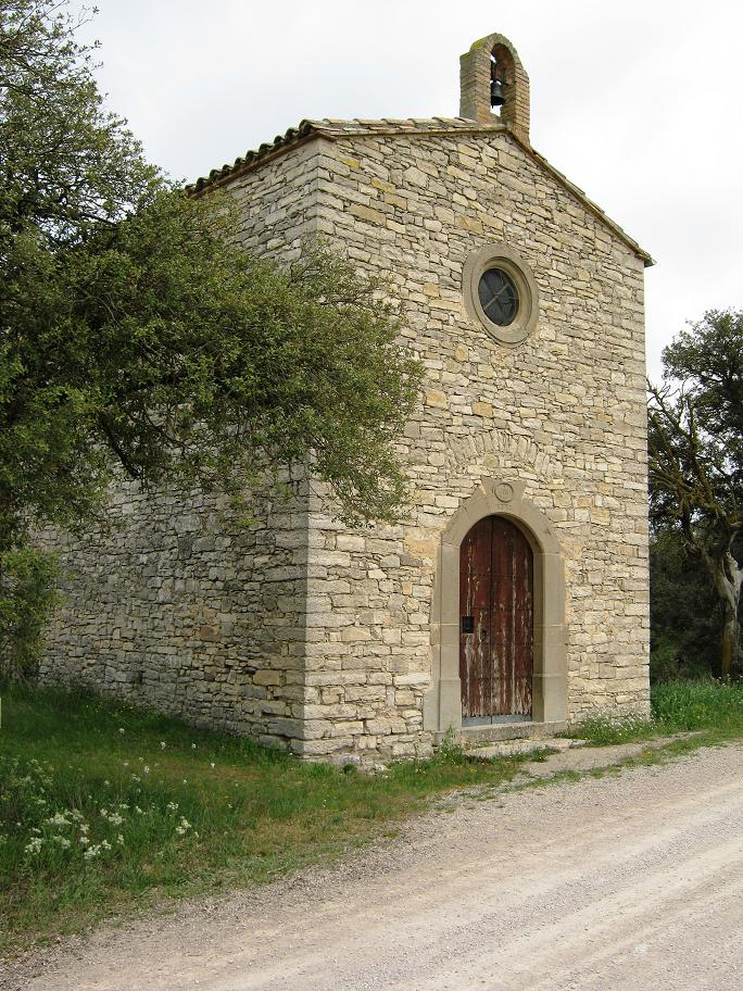 Sant Salvador Chapel in Altadill (Sant Guim de Freixenet)